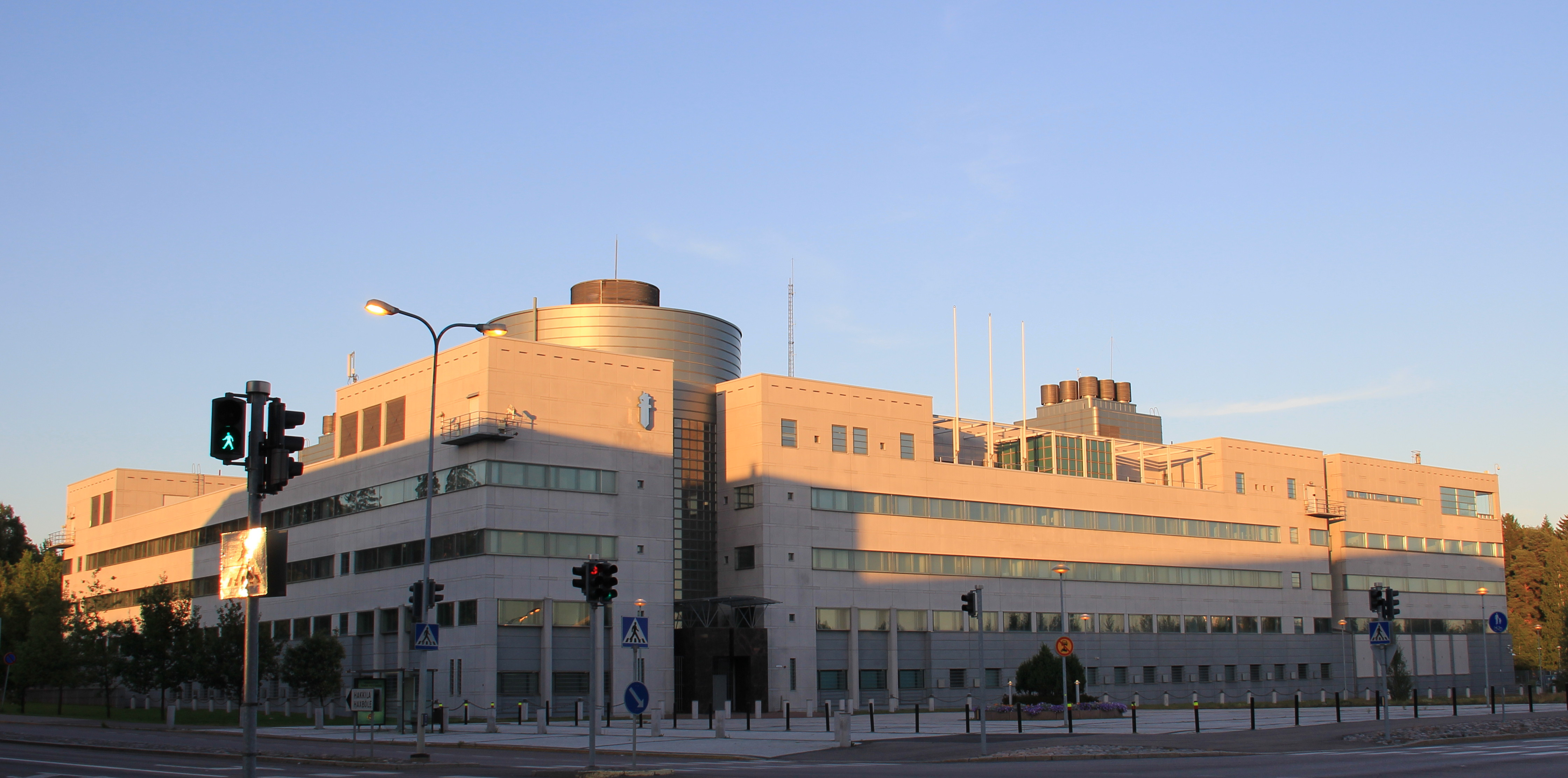 National Bureau of Investigation headquarters, Vantaa, Finland.